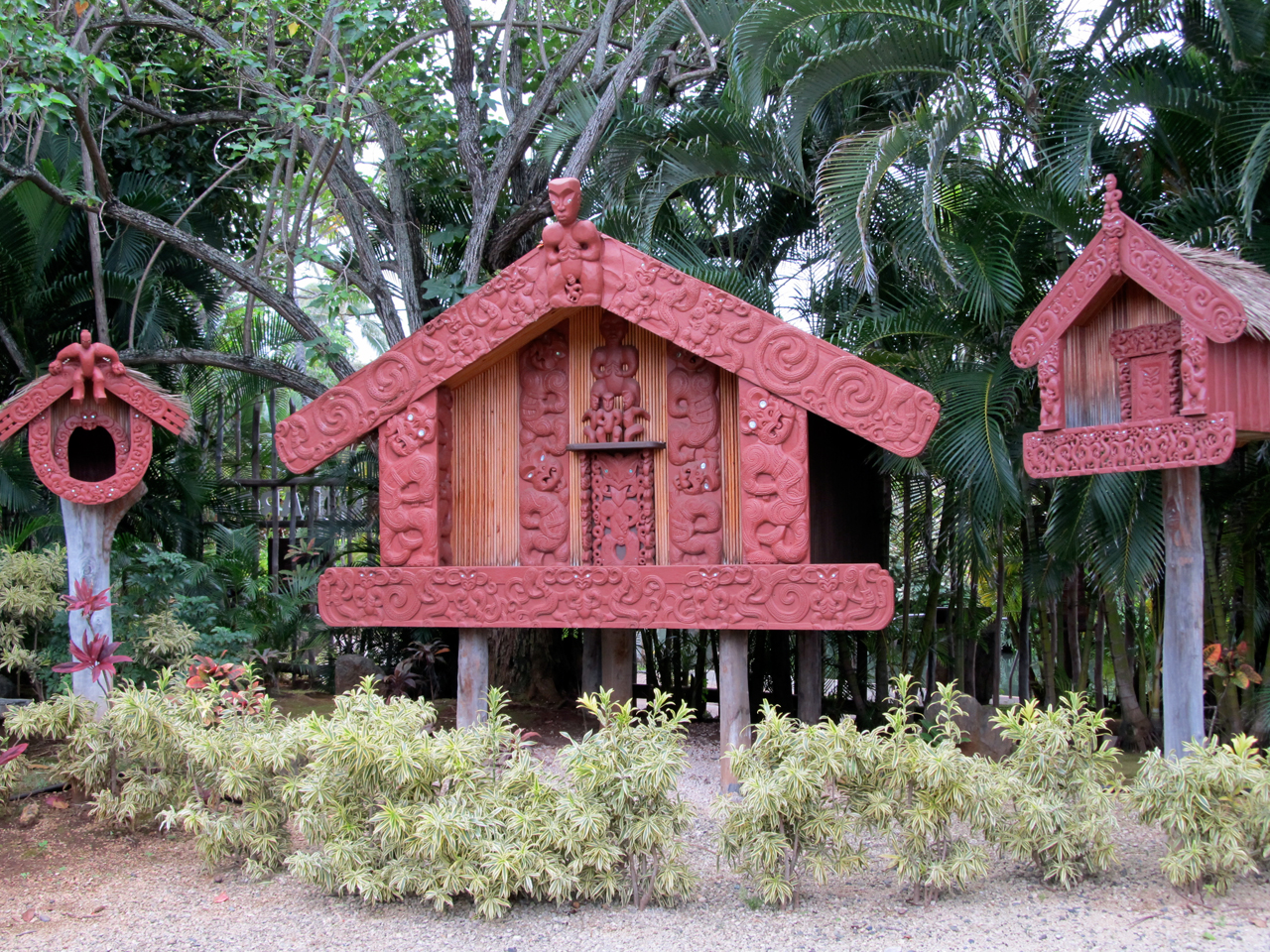 Some of the smaller buildings included the the Whare Whakairo or "carved house" where a chief and his family would live; the Whare Puni or family dwelling house, which doubles as a museum; and the Pataka, a food storage shed.